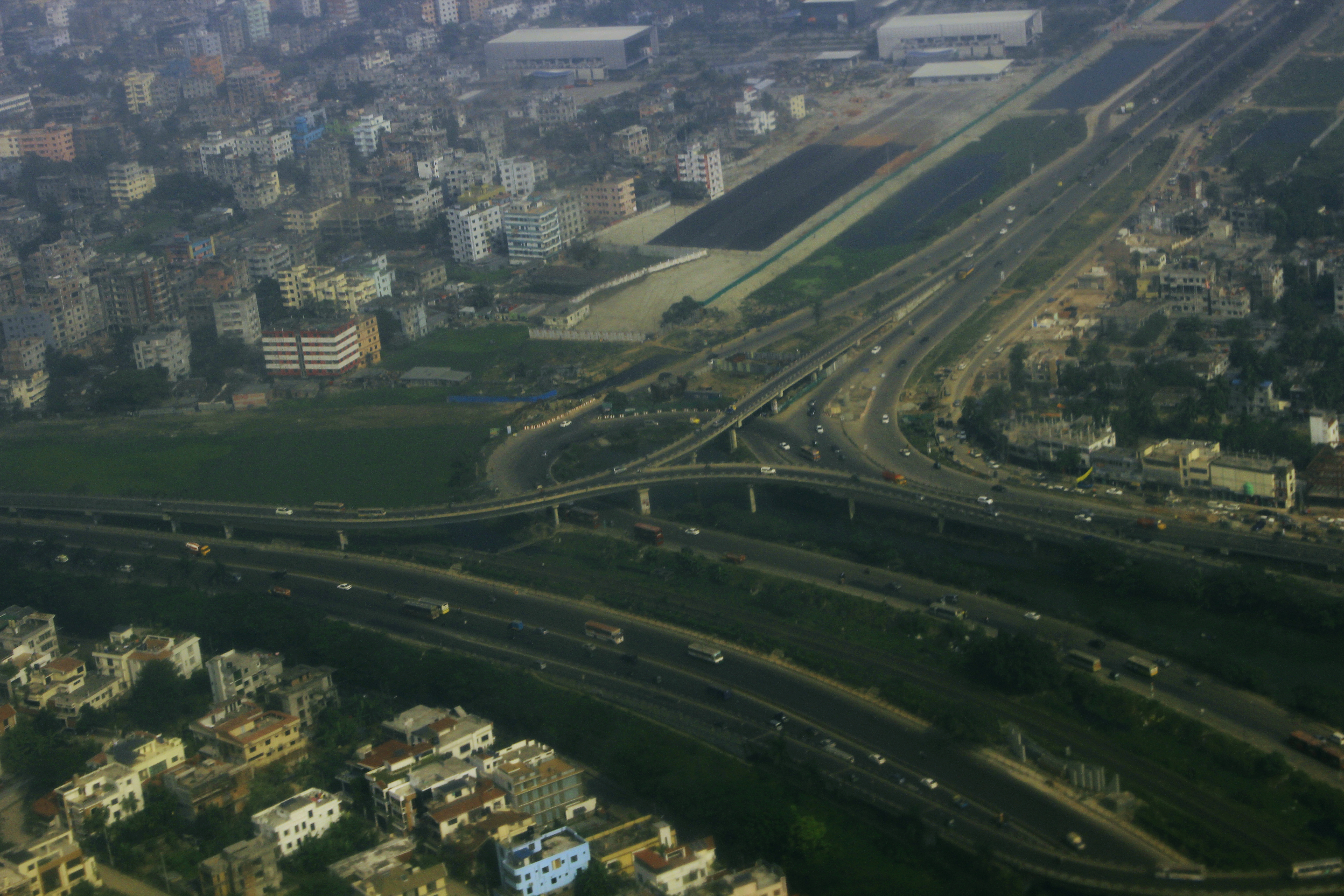 Aerial view near Kuril, Dhaka.